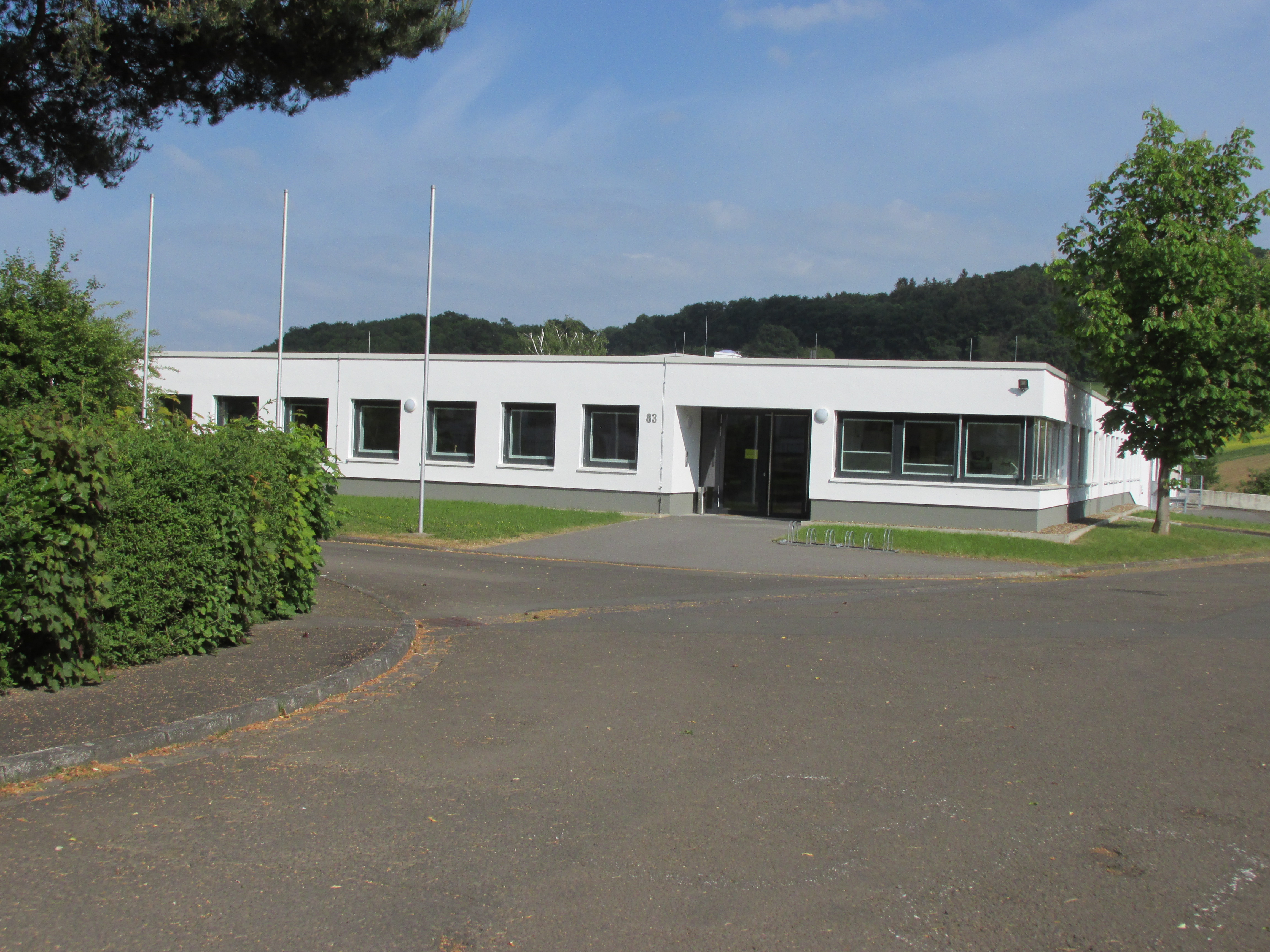 State Archive Marburg, Neustadt site (archive for documents related to civil status), Neustadt (Hessen), Germany check usage Address Personenstandsarchiv Leipziger Str. 83 35279 Neustadt Germany Date19 May 2018SourceOwn work. (→ weitere 2,053 Bilder von mir in der Galerie)AuthorStefan FlöperPermission (Reusing this file) cc-by-sa-3.0, gfdl 1.2+